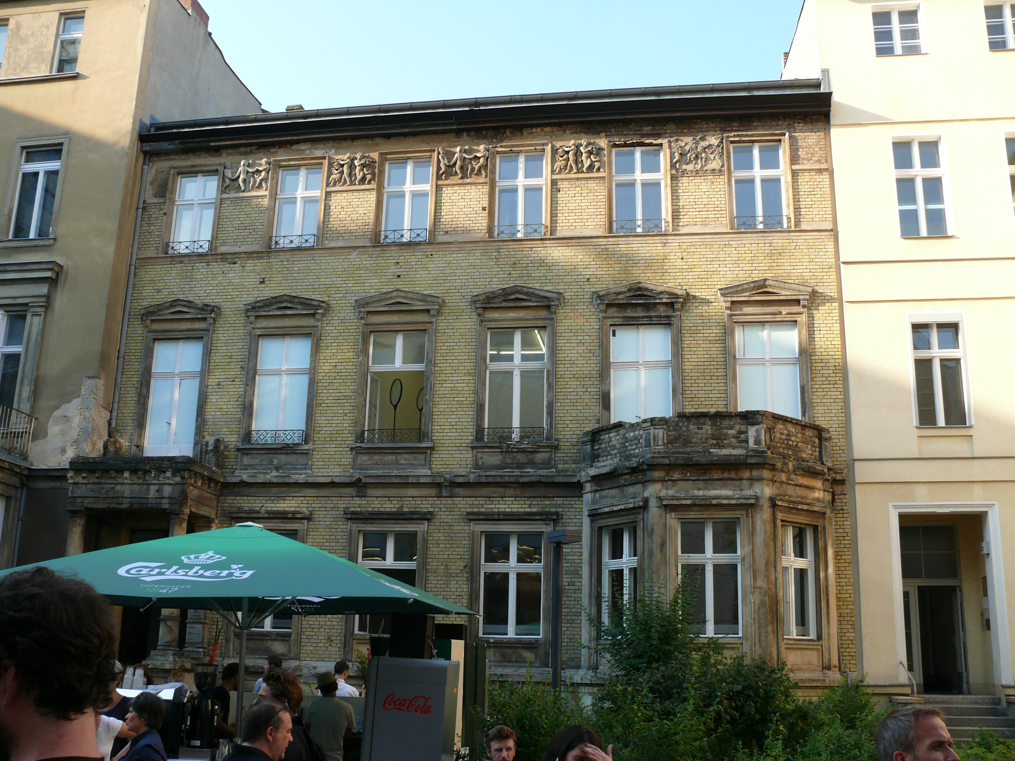 Tiergarten Potsdamer Straße 81A Anton-von-Werner-Haus